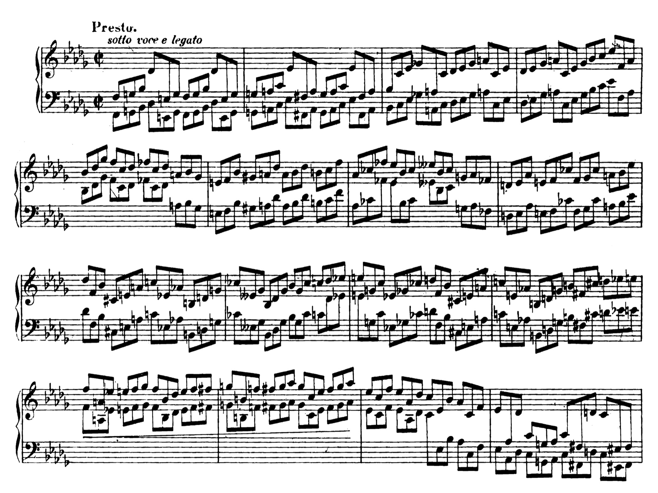 Breitkopf edition of the beginning of the Finale of the Chopin Sonata No. 2 in B-flat minor, Op. 35